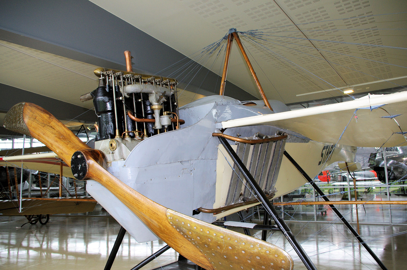 Argus engine of Rumpler Taube, Forsvarets Flysamling, Gardermoen